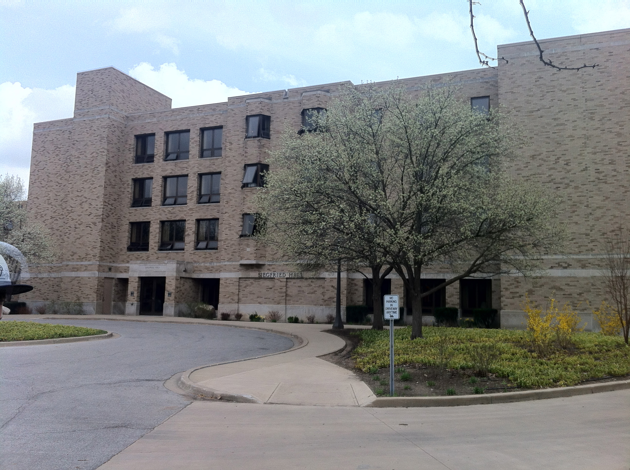 Siegfried Residential Hall at the University of Notre Dame